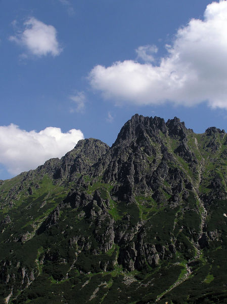 Tatra Mountains in Poland